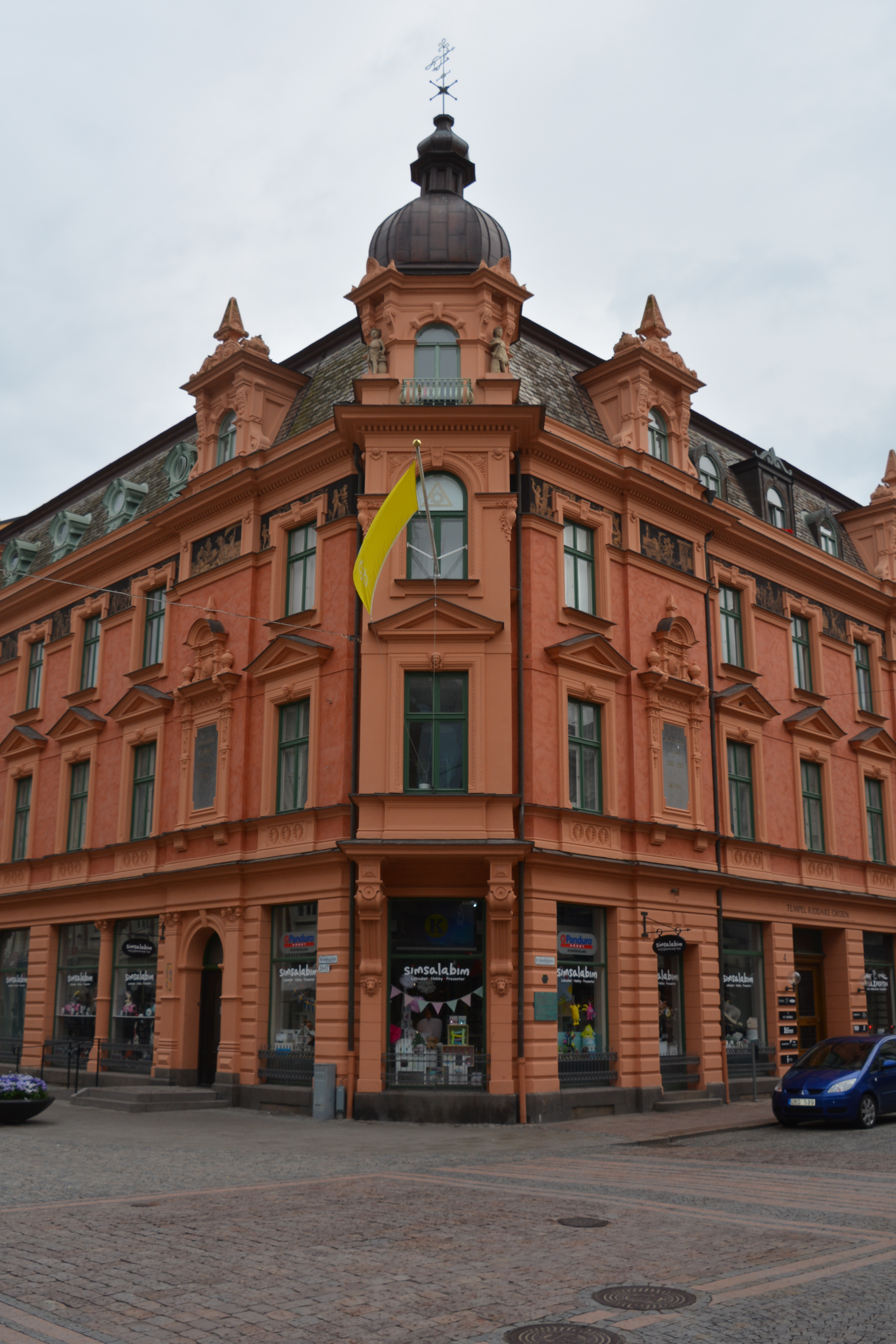 Hubendickska huset i Karlskrona